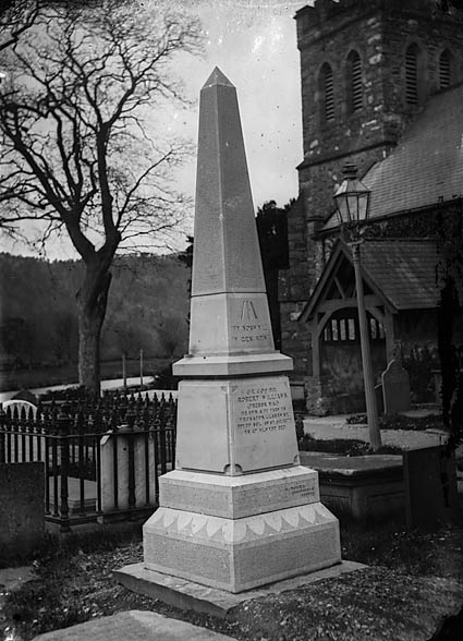 1 negative : glass, wet collodion, b&w ; 16.5 x 12 cm.